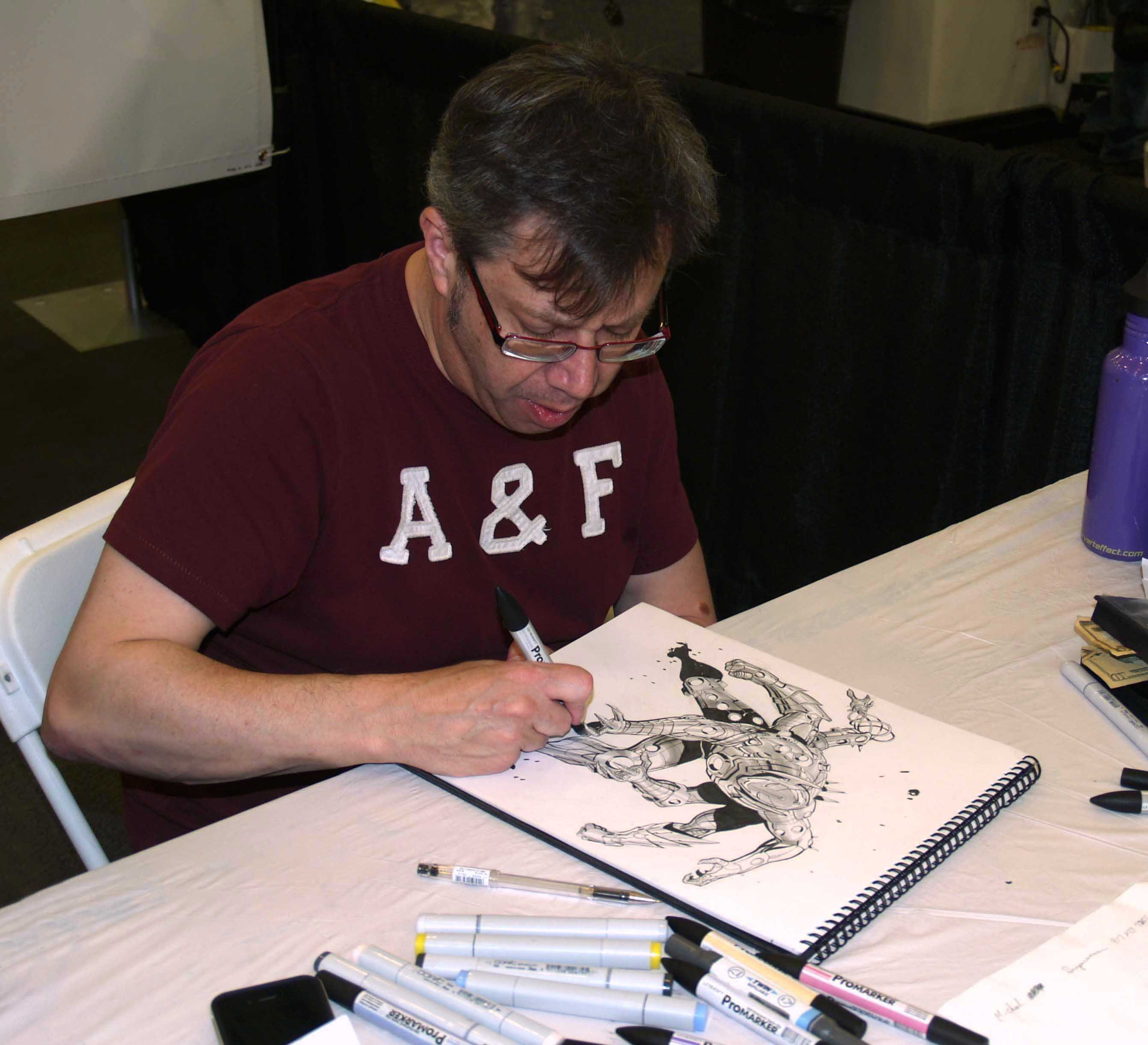 Comics creator Carlos Pacheco sketching a six-armed version of the fictional robot Ultron on June 29, 2013, during the 2013 Wizard World New Experience. This photo was created by Luigi Novi. It is not in the public domain, and use of this file outside of the licensing terms is a copyright violation.